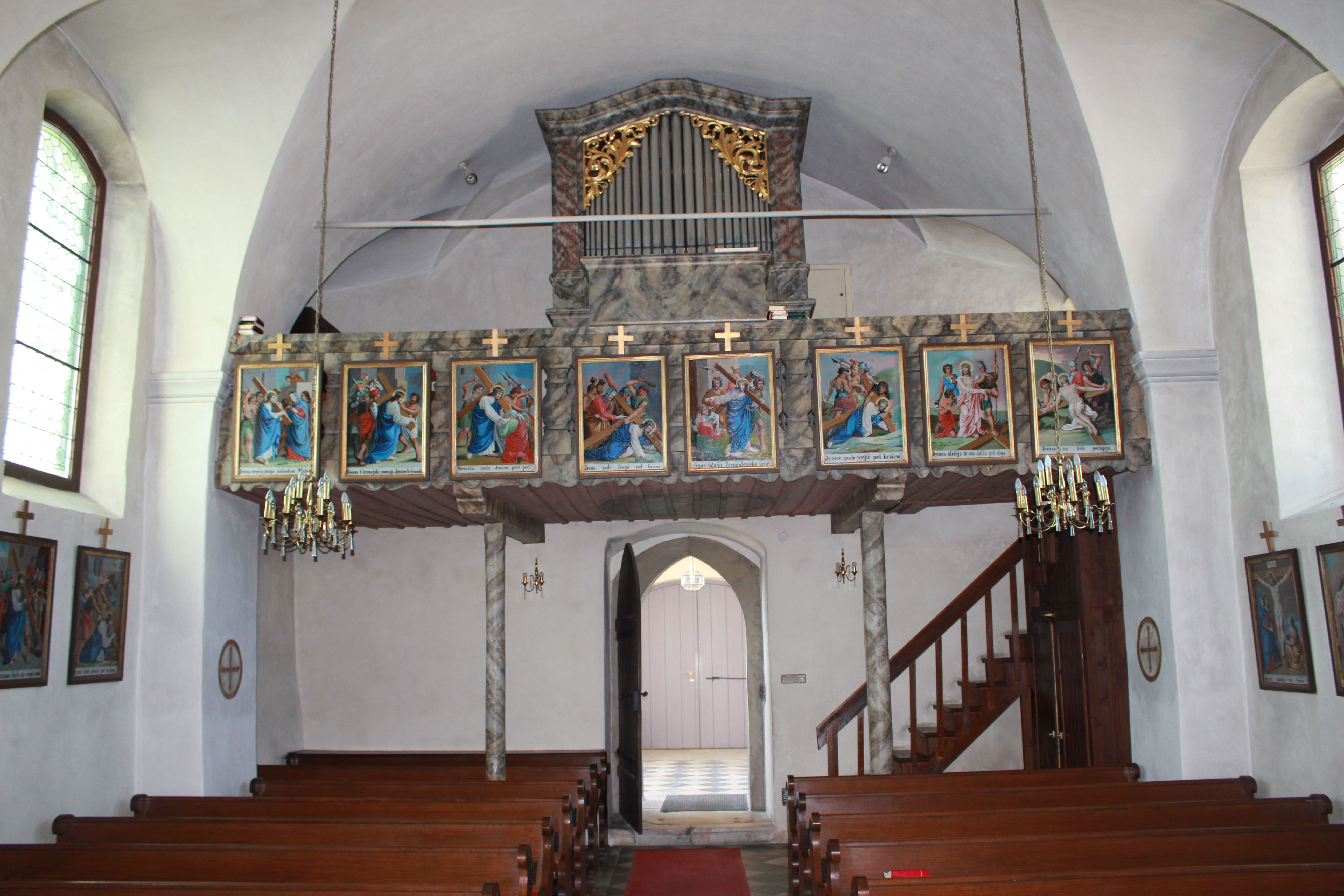 Church of Poggerdorf - View to the organloft